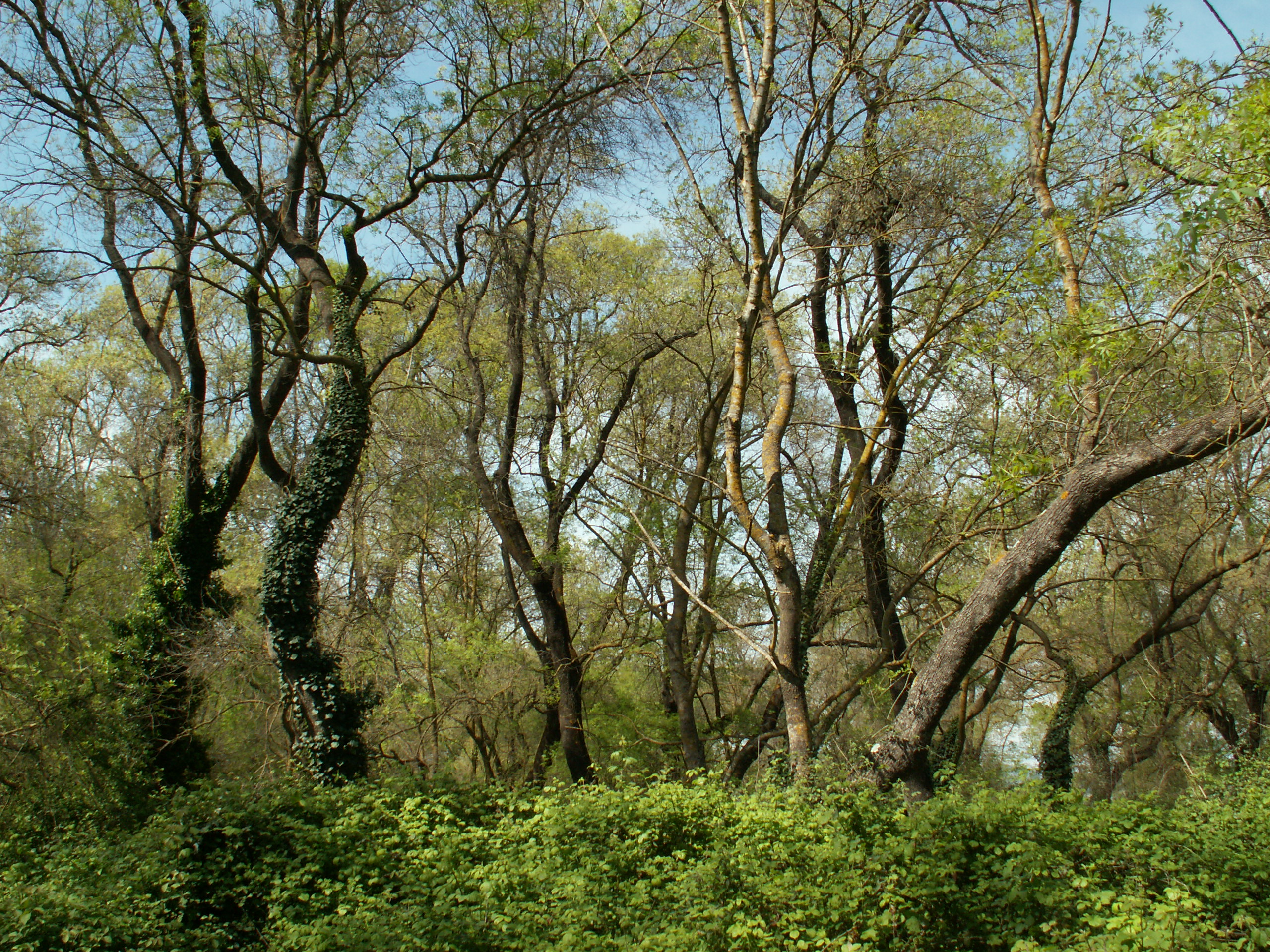 This is a photography of Natura 2000 protected area with ID GR2310015